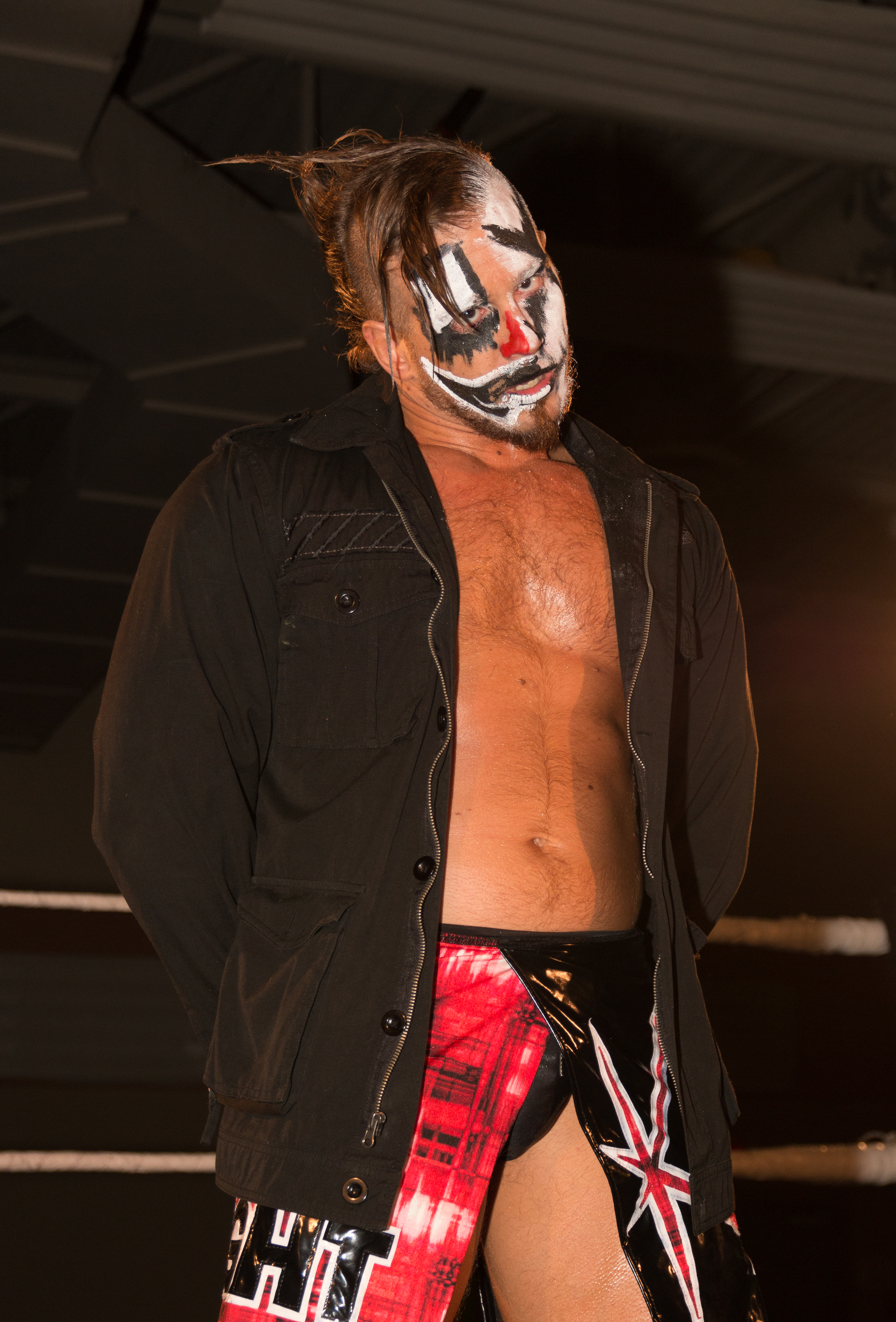 Crazzy Steve in the ring prematch at Anarchy in Angus 2015